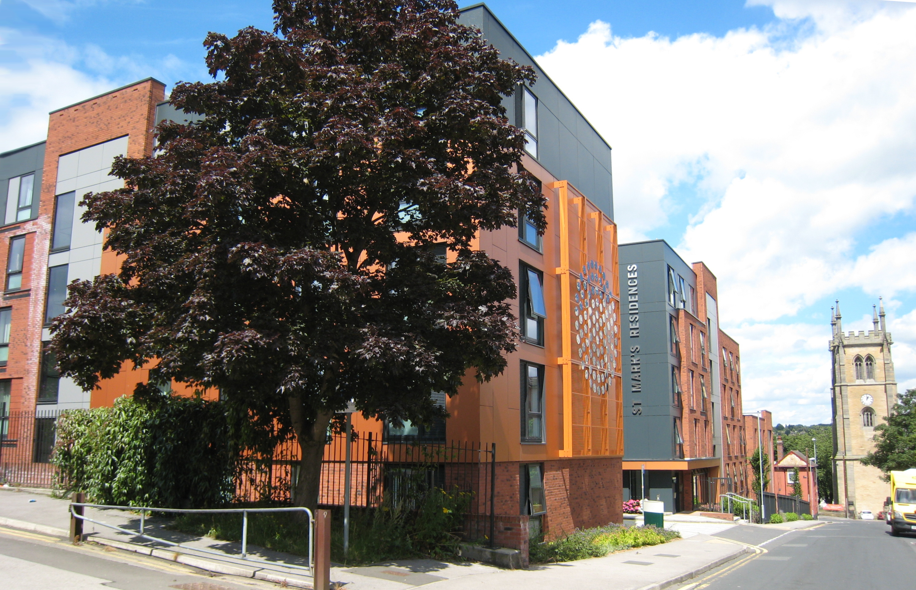 View north along St Mark's Street, Woodhouse, Leeds LS2 towards St Mark's Road and the tower of St Mark's parish church. St Mark's Residences are student accommodation of the University of Leeds. At the end of the road is an older red-painted brick house, 61 St Mark's Road.